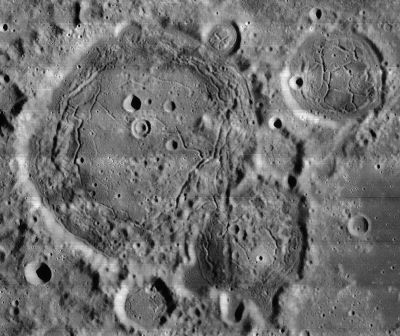 Lunar Orbiter IV image 4189 H2 Lavoisier is the large feature mostly to the left of center. The floor fractured crater in the upper right is Lavoisier H, while the irregularly shaped on with the mounded floor is Lavoisier F. The pentagonal crater tangent to the south rim of Lavoisier is Lavoisier W.